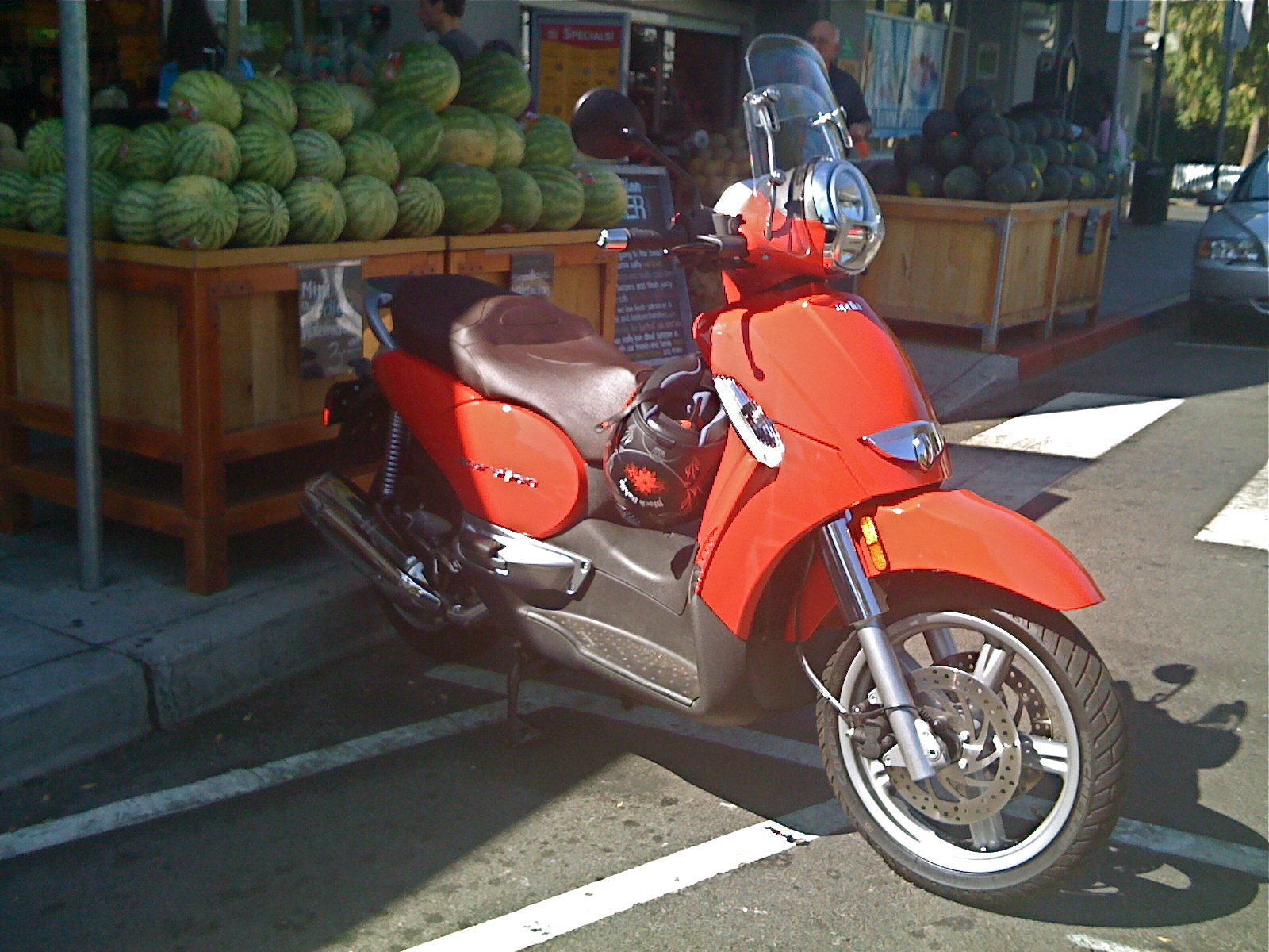 Hooray! Geotagged pics taken with my iPhone no longer show up in China. The new version of iPhoto (7.1.4) fixes the problem. Aprilia Scarabeo 250?